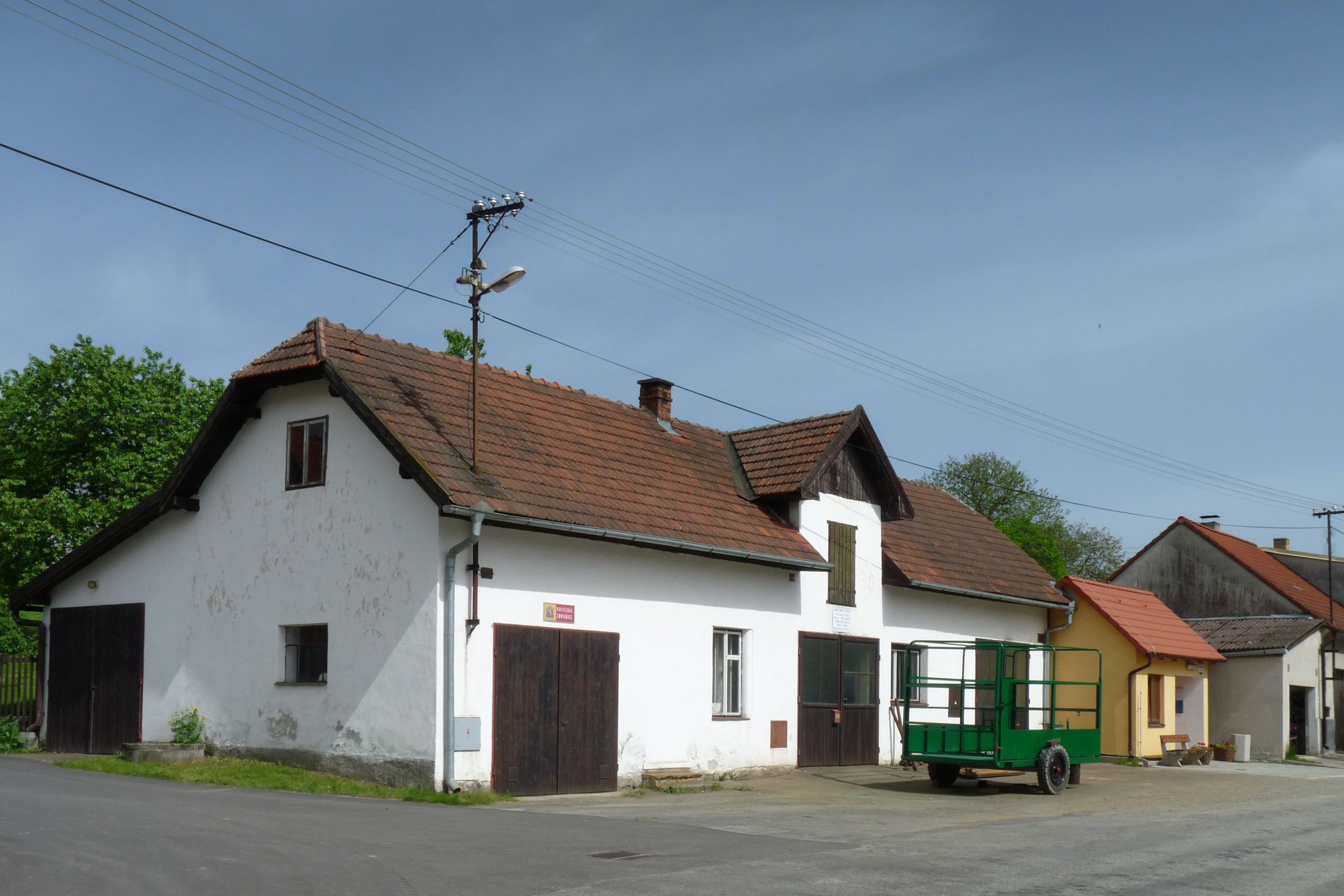 House No 35, the local fire station, in the village of Bořetín Pelhřimov District, Vysočina Region, Czech Republic.